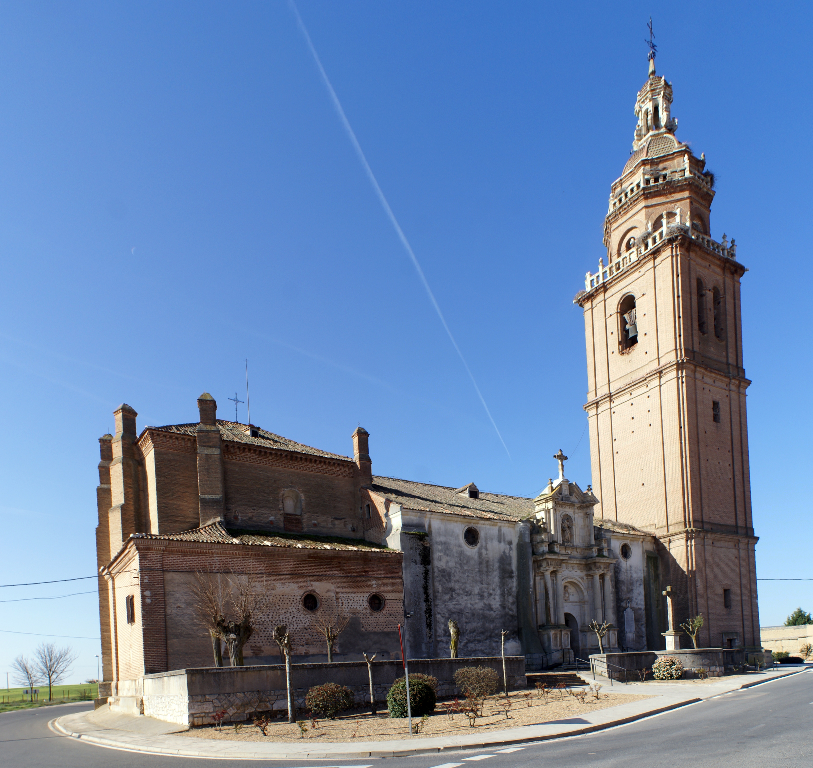 Church of St. Mary Magdalene of Matapozuelos, Valladolid, Spain. Three photographies stitched.